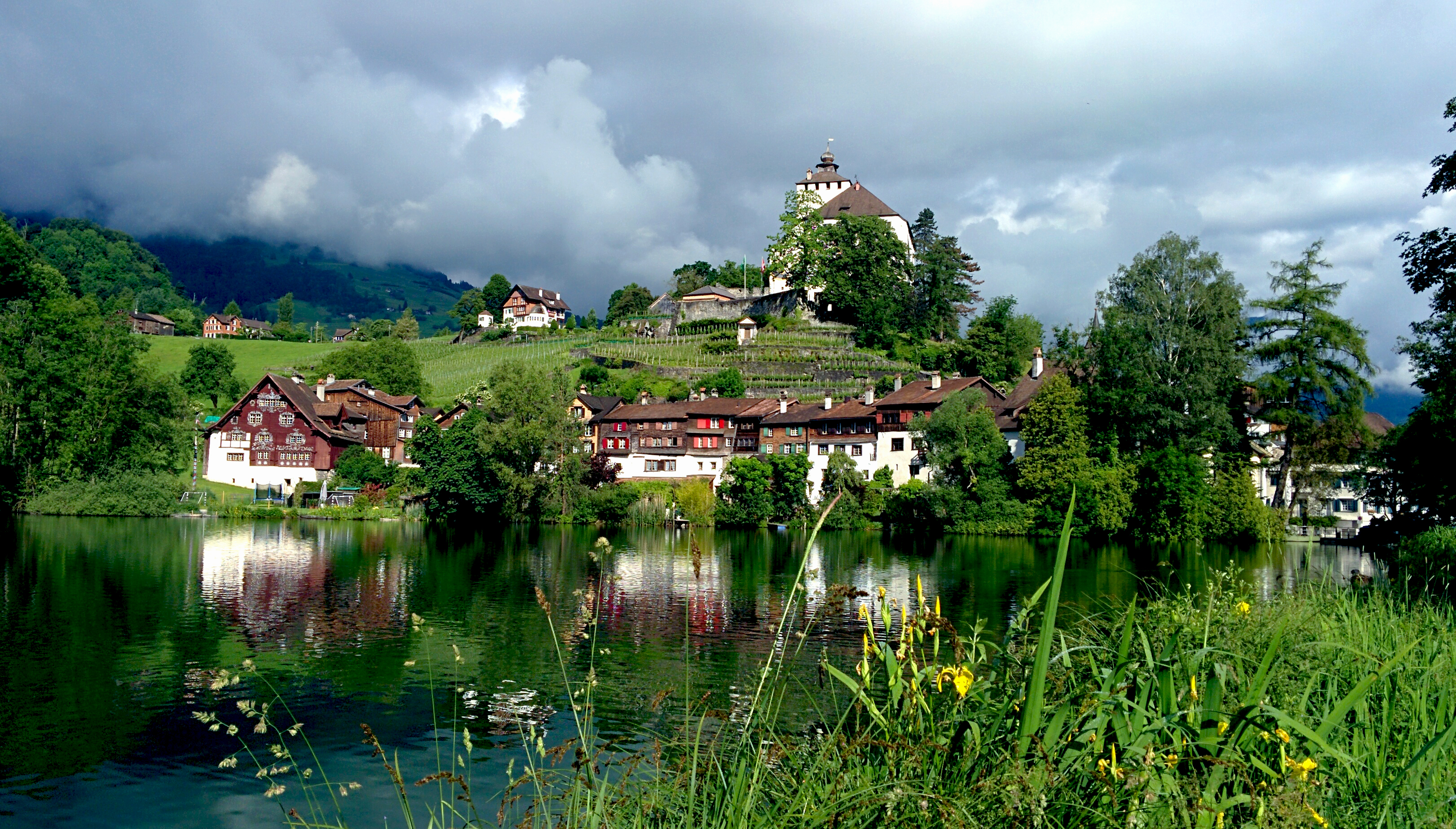 Schloss Werdenberg in Switzerland